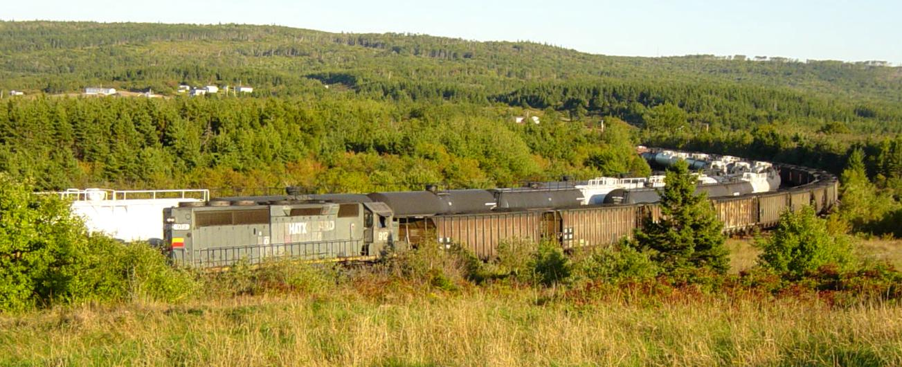 A trainload of coal, westbound on the Cape Breton & Central Nova Scotia Railway, enters the Havre Boucher yard at 5:50pm, 18 September 2003. This coal is destined for the Nova Scotia Power Inc. electric generating plant at Trenton.